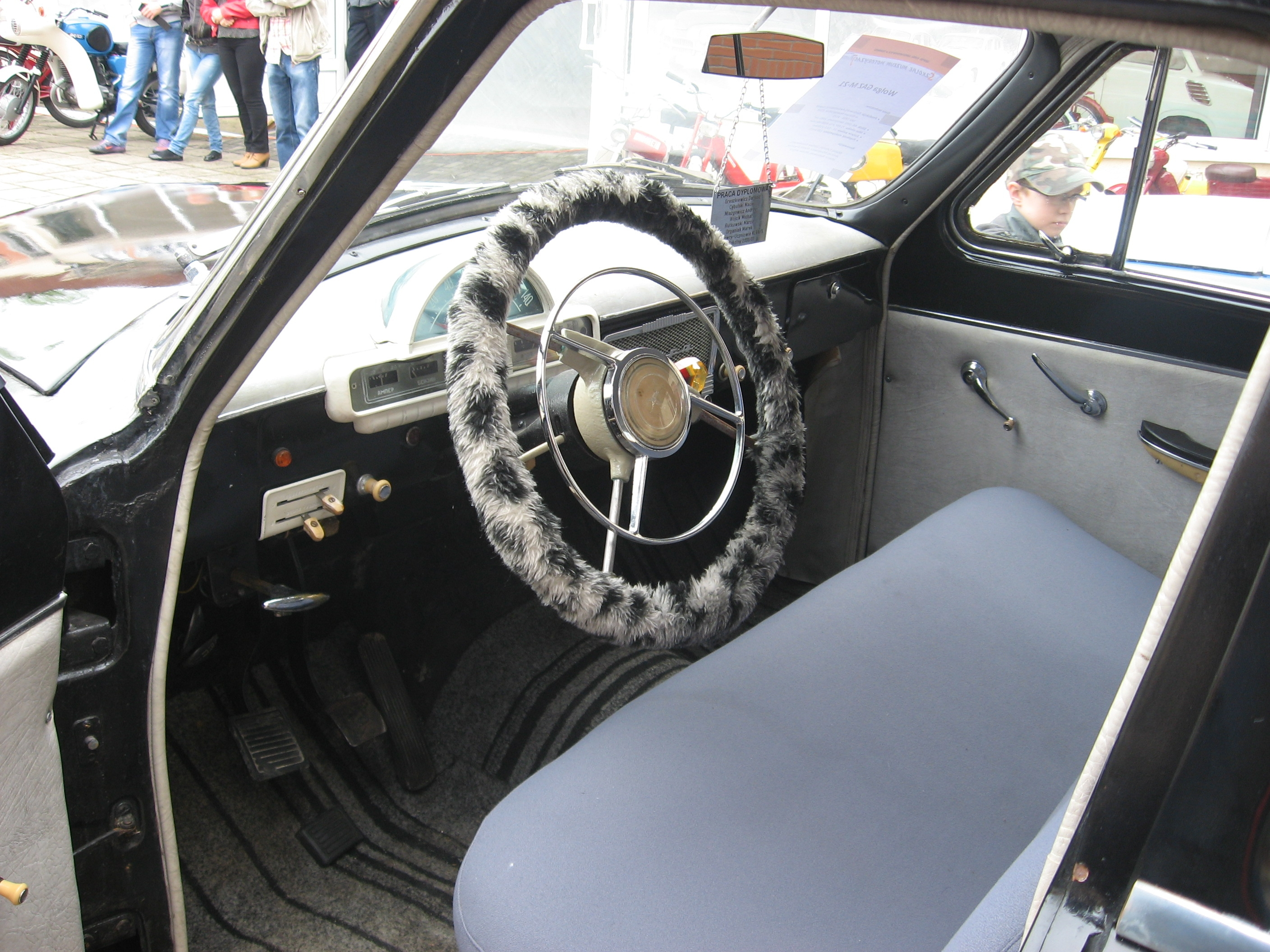 Muzeum Motoryzacji w Toruniu, podczas festynu. Wnętrze eksponatu.